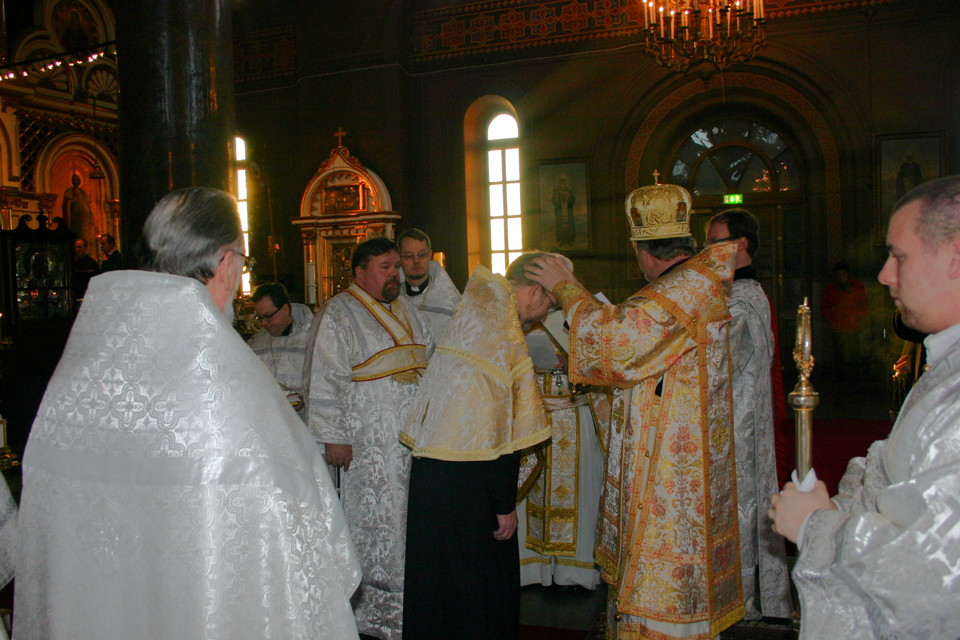 The Tonsuring of an Orthodox reader